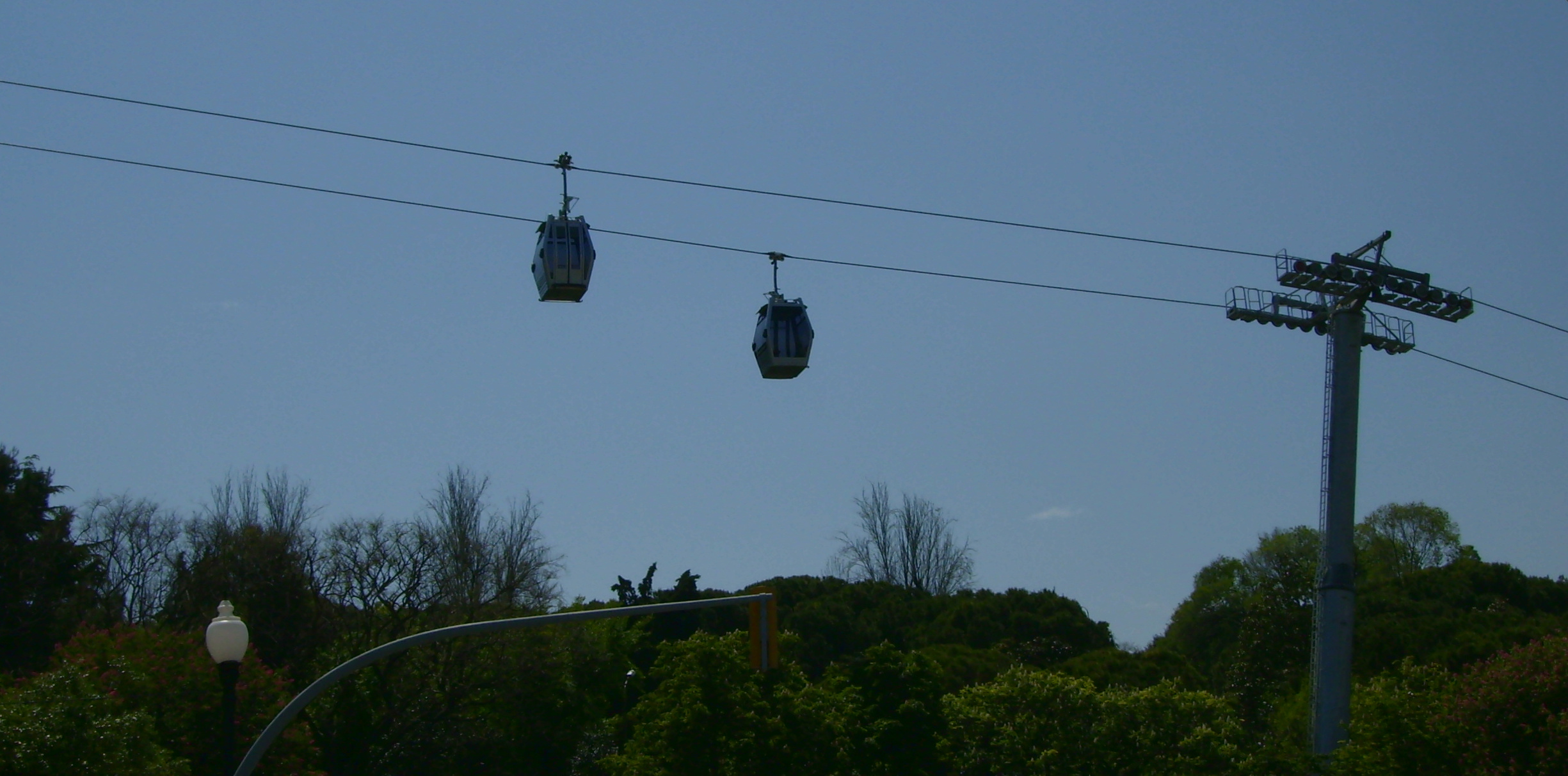 Cableway over Montjuïc, in Barcelona (Catalonia)